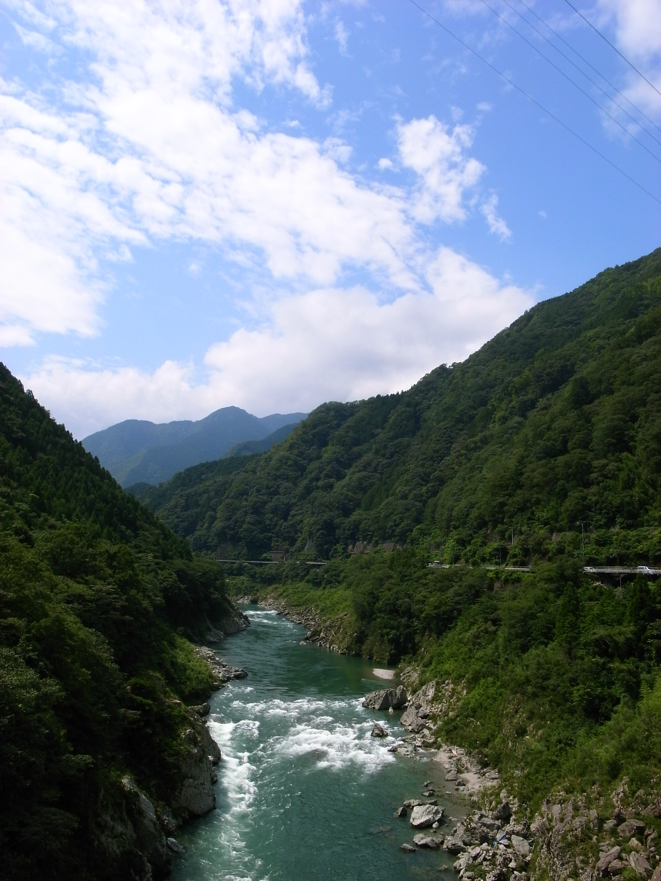 Iya Valley. Ricoh GR Digital II